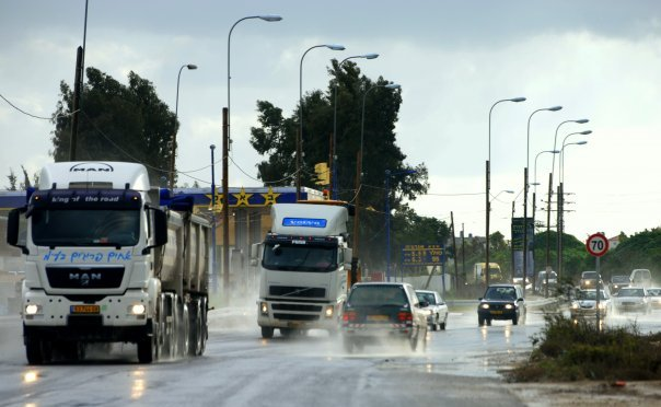 main street 444 of taybe